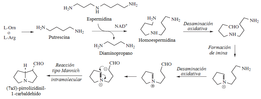 Necines biosynthesis